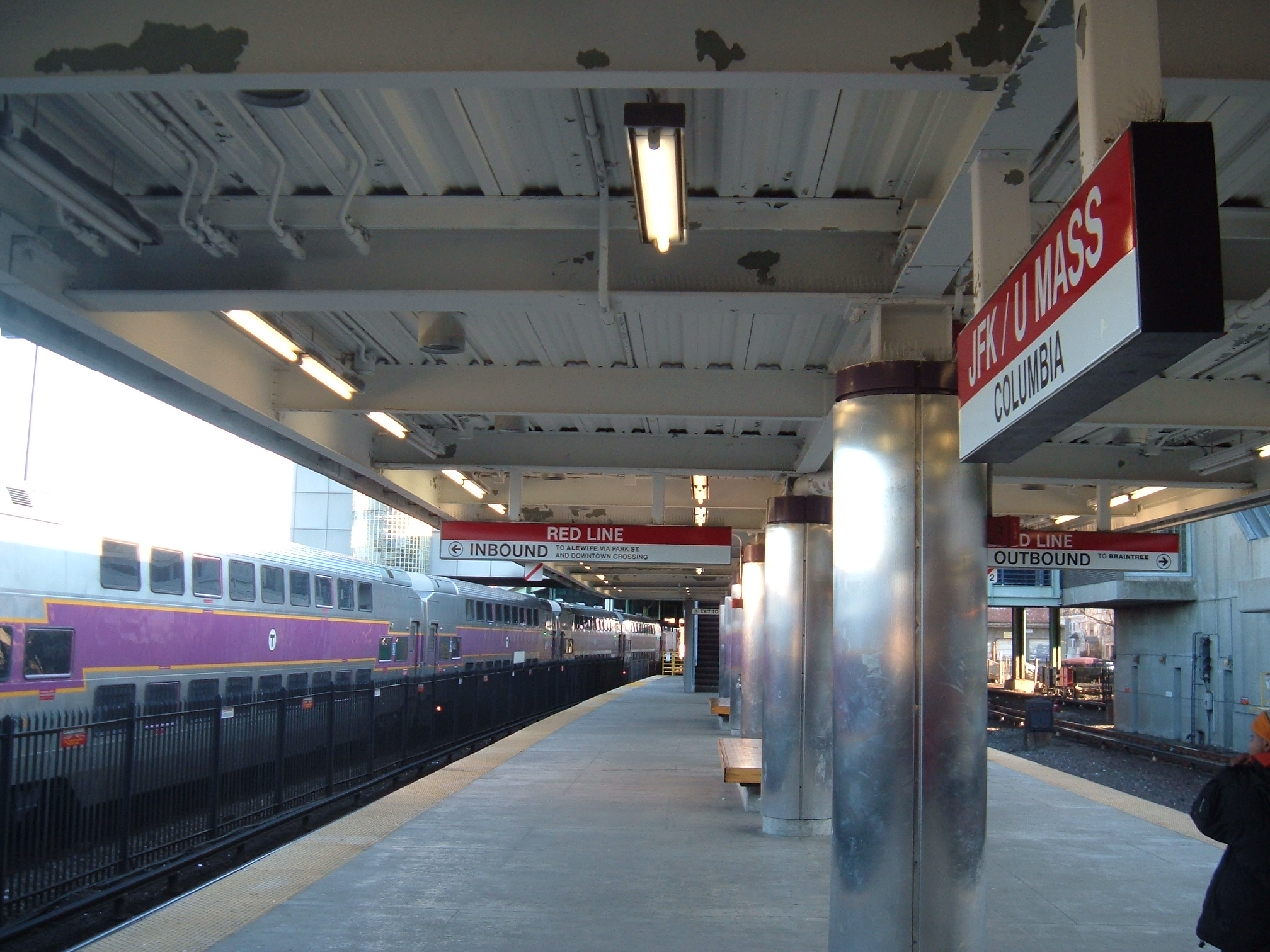 One of two Red Line platforms at the JFK/UMass station